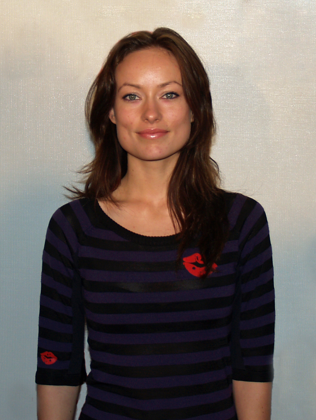 Olivia Wilde at the 2007 Tribeca Film Festival